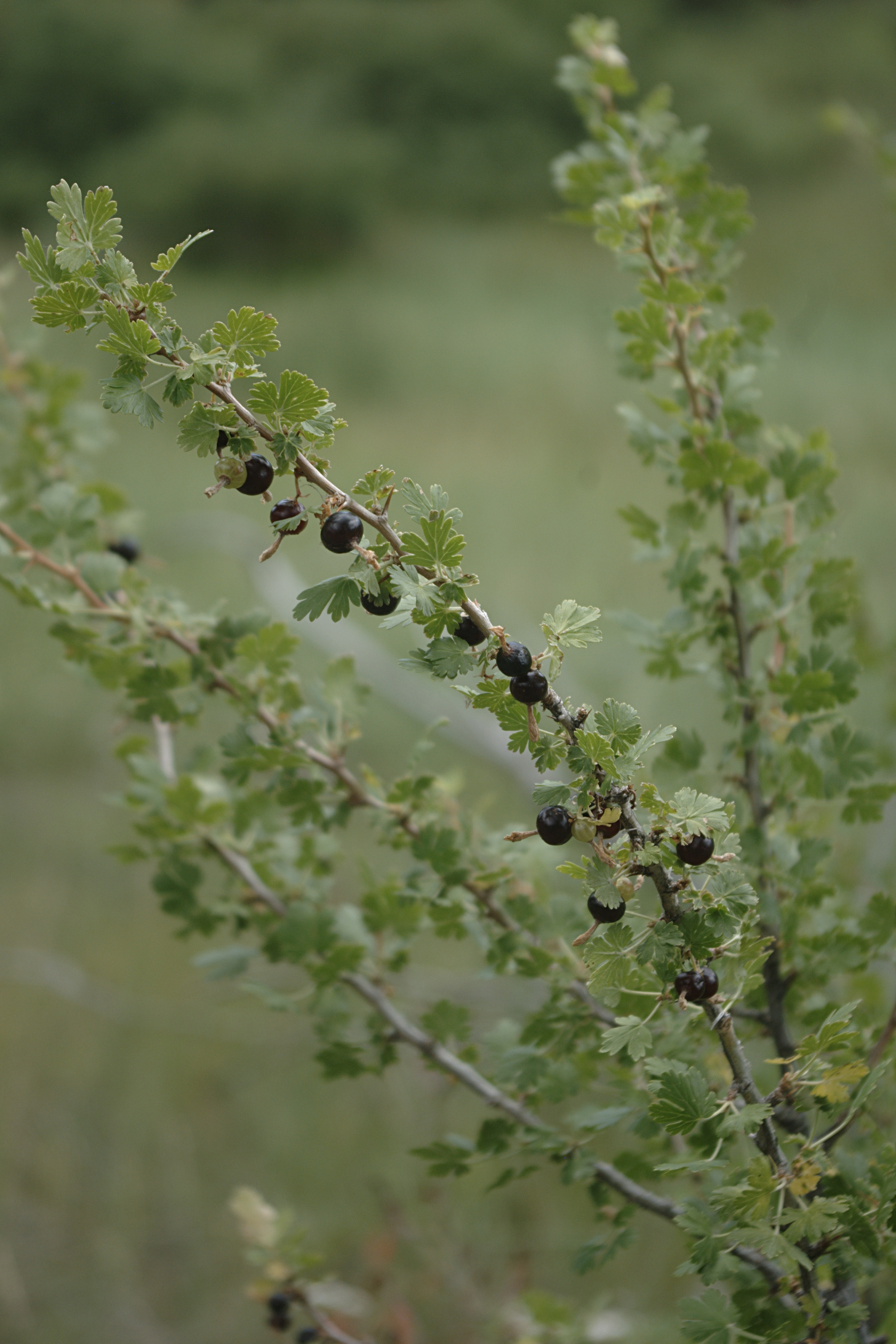 Ribes leptanthum, trumpet gooseberry, Apache Springs Trail, Jemez Mountains, New Mexico.